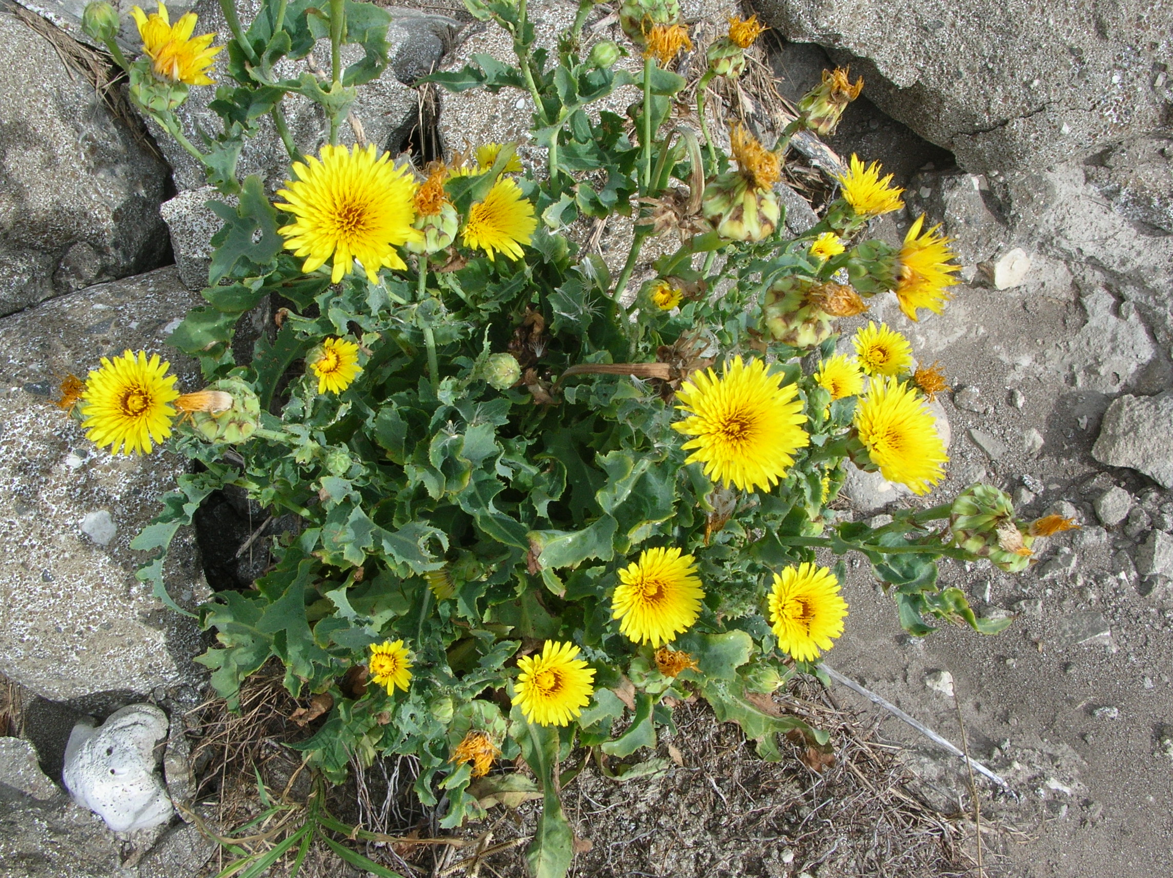 Reichardia picroides (habit). Location: Oahu, Manana